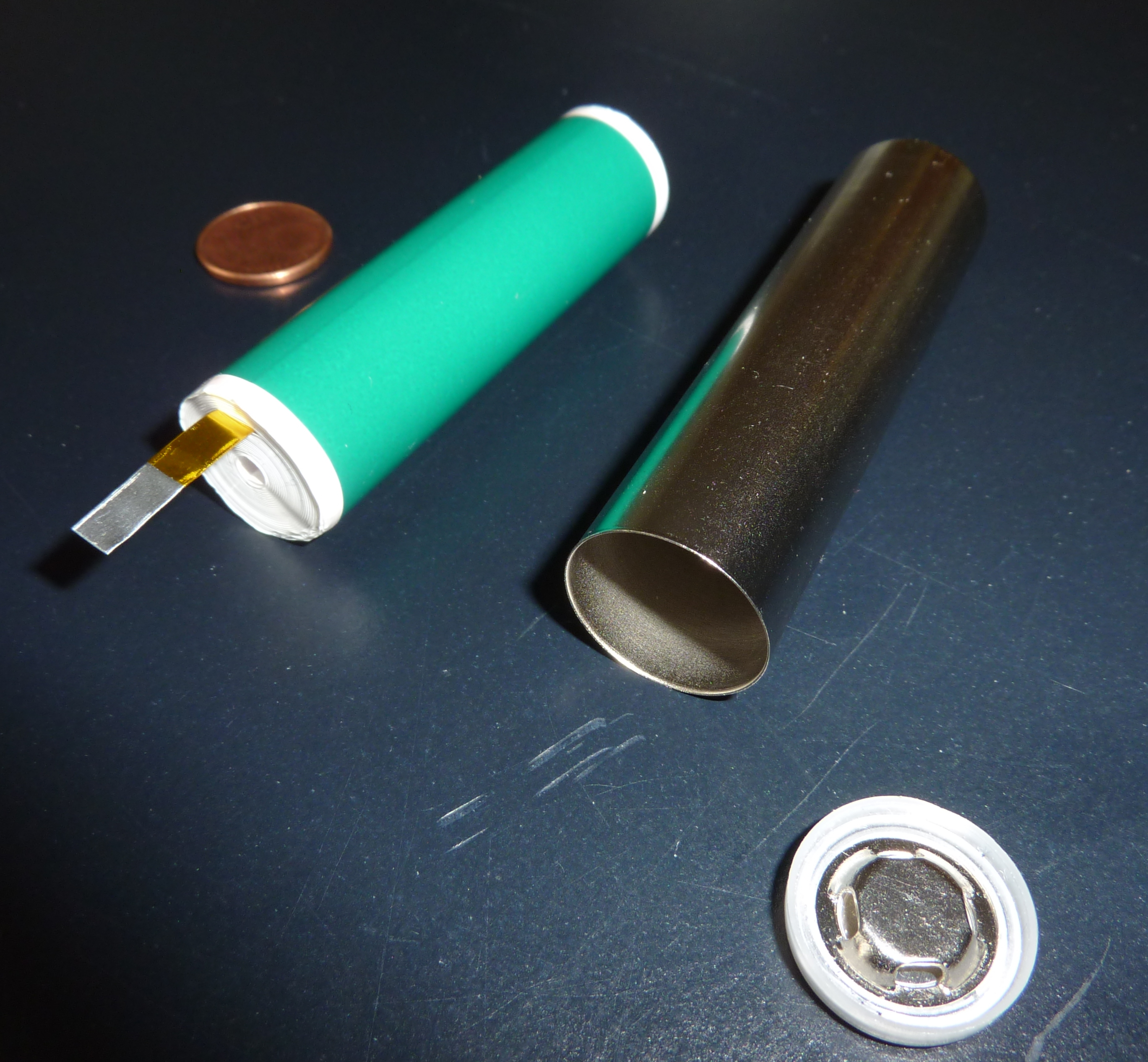 Cylindric Lithium-Ion Battery Cell (18650) before closing (1 euro cent coin shown in background)